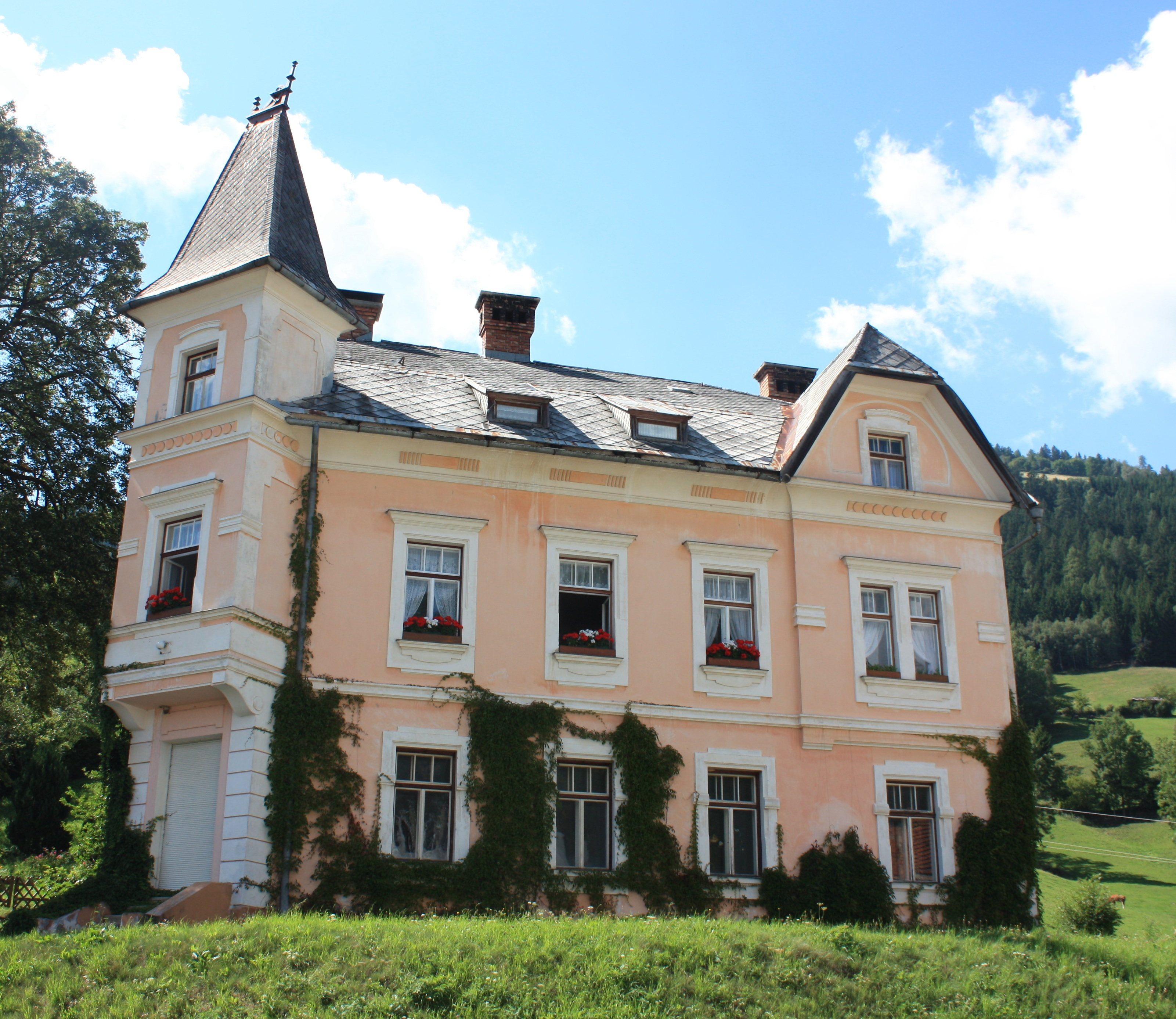 Villa Locality: Winklern Community:Winklern